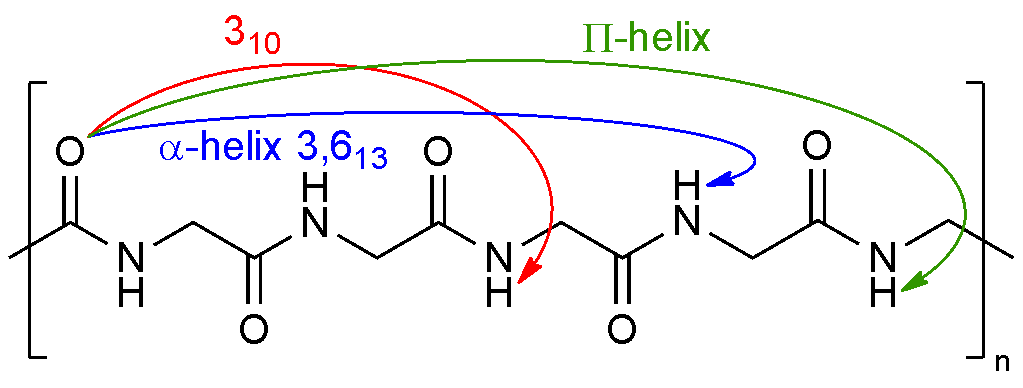 H-Bridging as it occurs in proteins to form characteristic secondary structures.